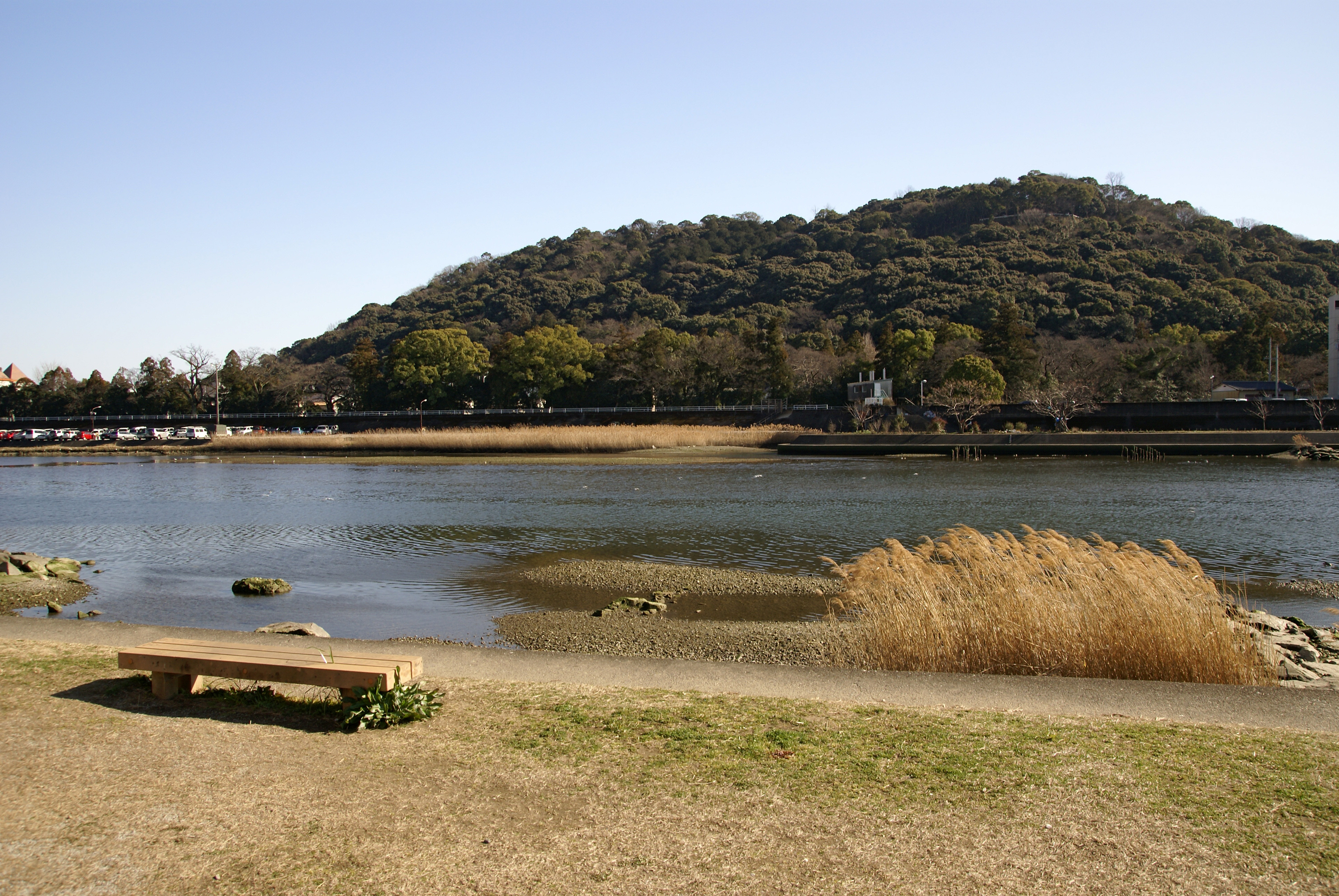 Mt. Hitsuzan in Kochi, Kochi prefecture, Japan